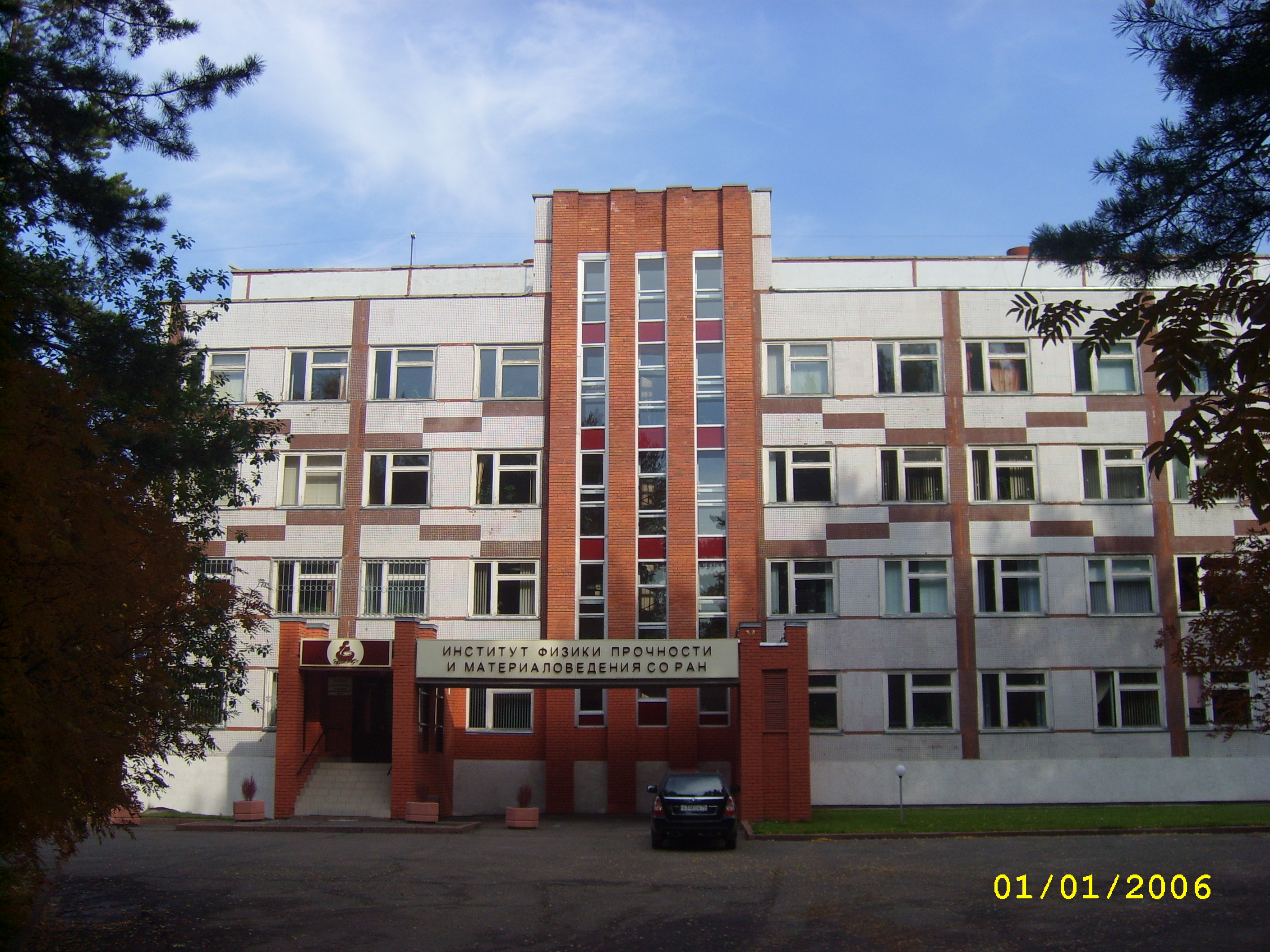 Main building #1 at the Institute of Strength Physics and Materials Science of the Siberian Branch of the Russian Academy of Sciences in Tomsk, Russia